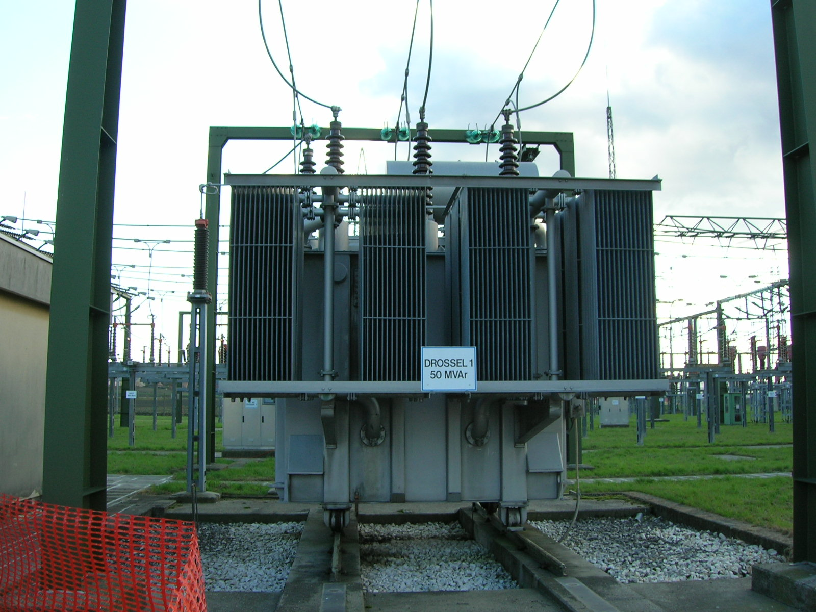 Large three-phase inductor at Bisamberg substation, Austria